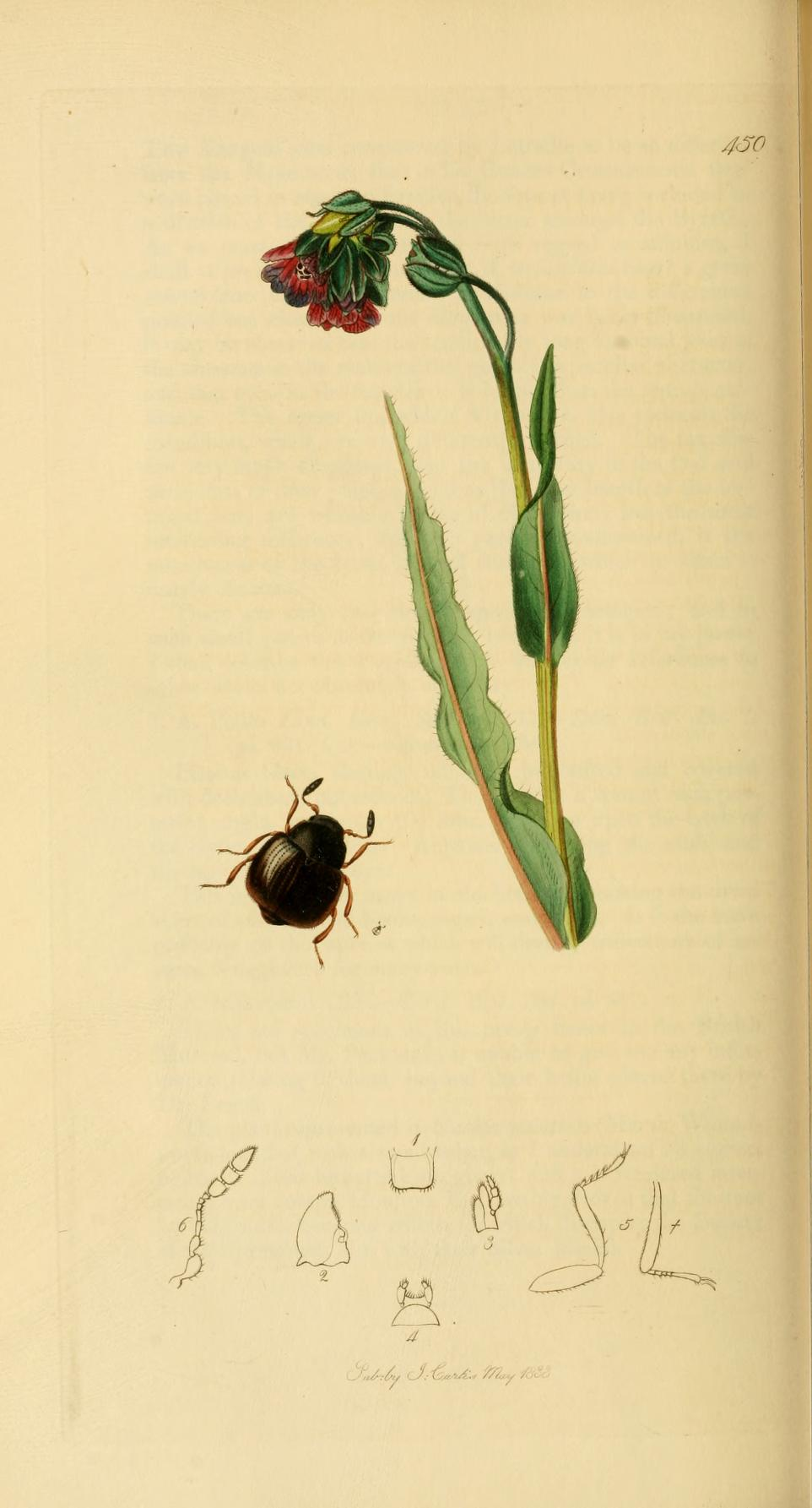 An illustration from British Entomology by John Curtis. Coleoptera: Aspidophorus orbiculatus (Sphindidae. Orbicular Dermestes).